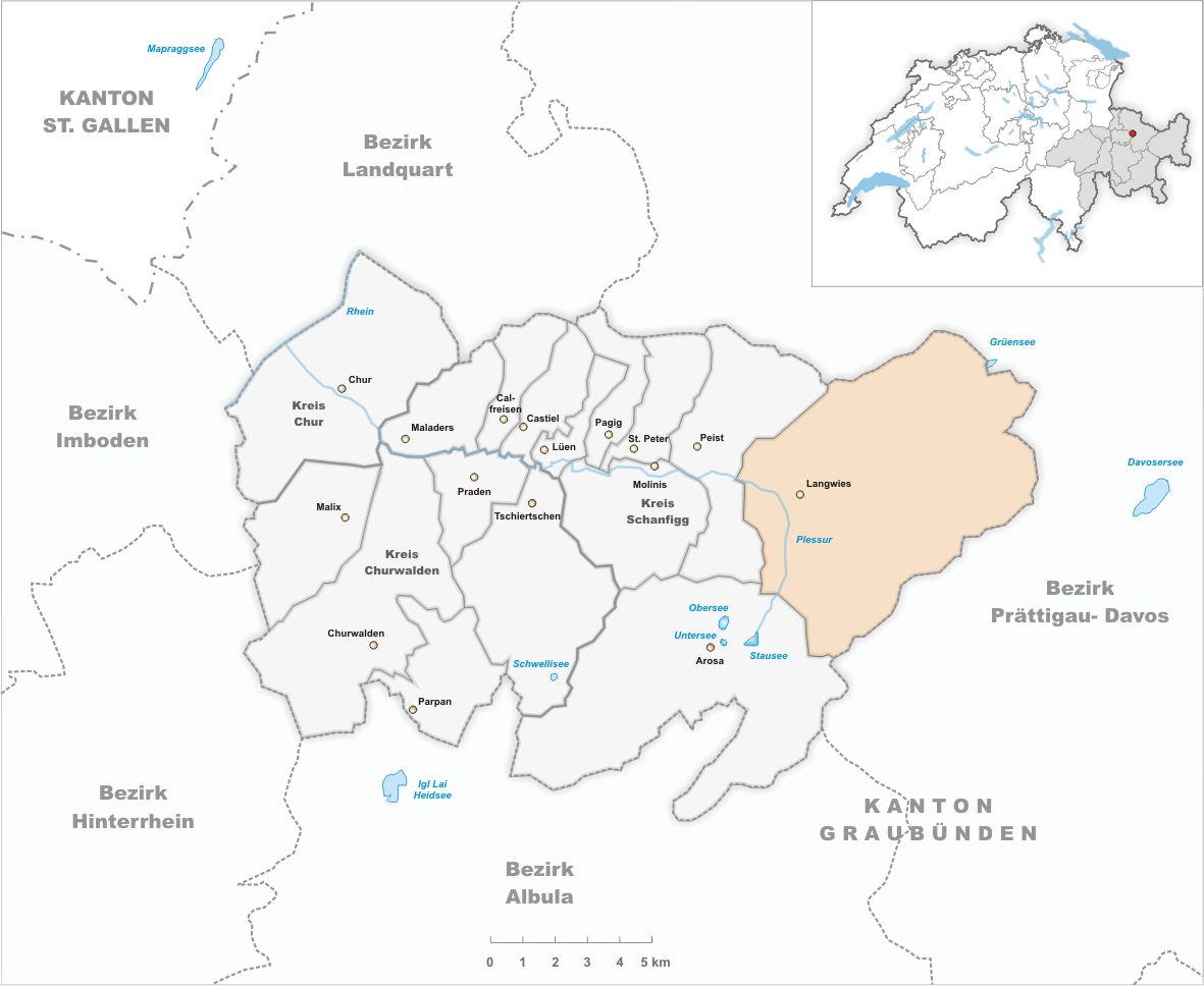 Municipality Langwies